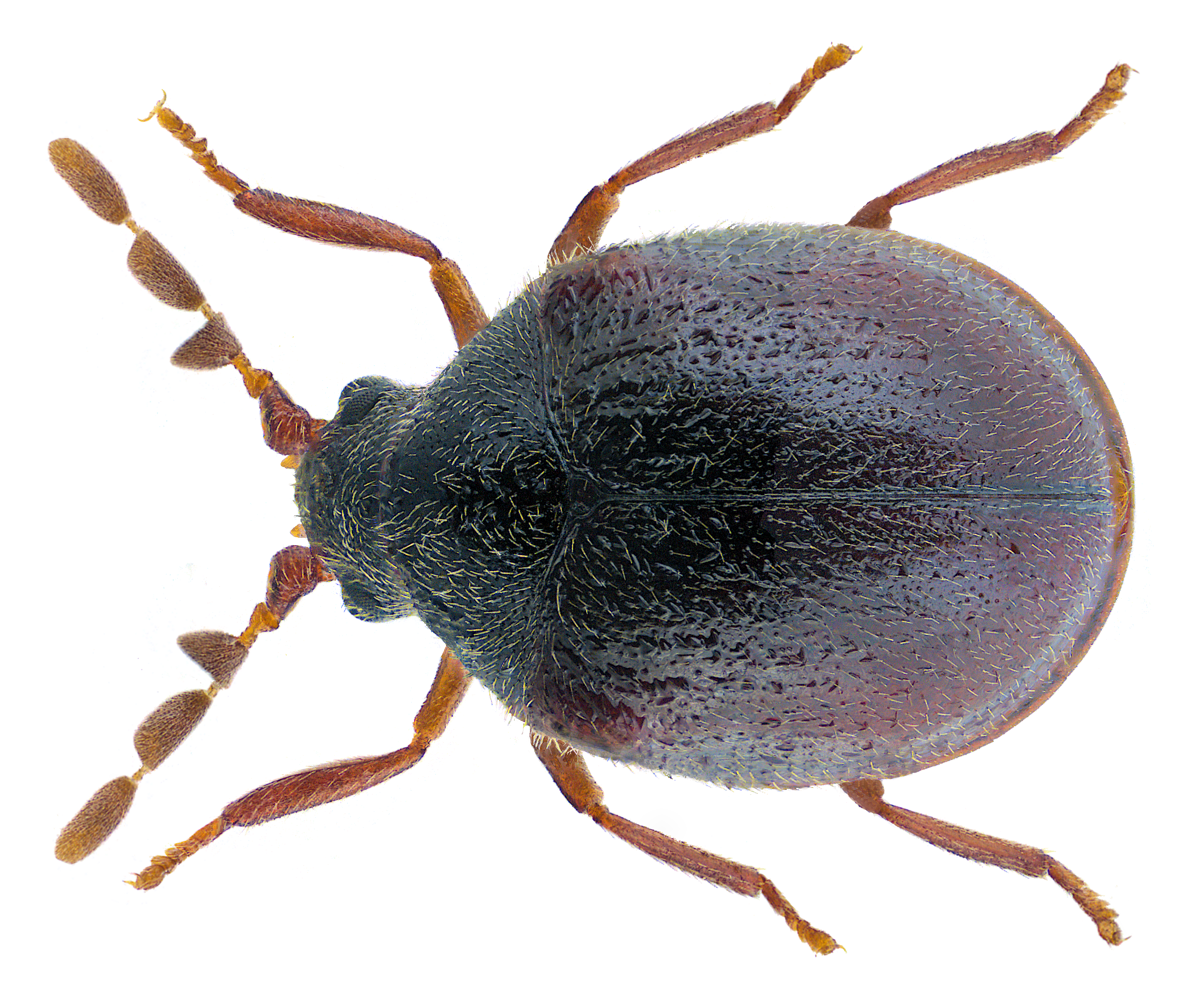 Family: Anobiidae (Ptinidae) Size: 2.2 mm (1.6 to 2.5 mm) Distribution: Europe Ecology: The beetles develop into fungi of the genera Lycoperdon, Globaria, Bovista Location: England, Suffolk, Sizewell leg. N.Cuming, 16.IX.1998; det. D.Nash Coll. Oxford University Museum of Natural History Photo: U.Schmidt, 2016